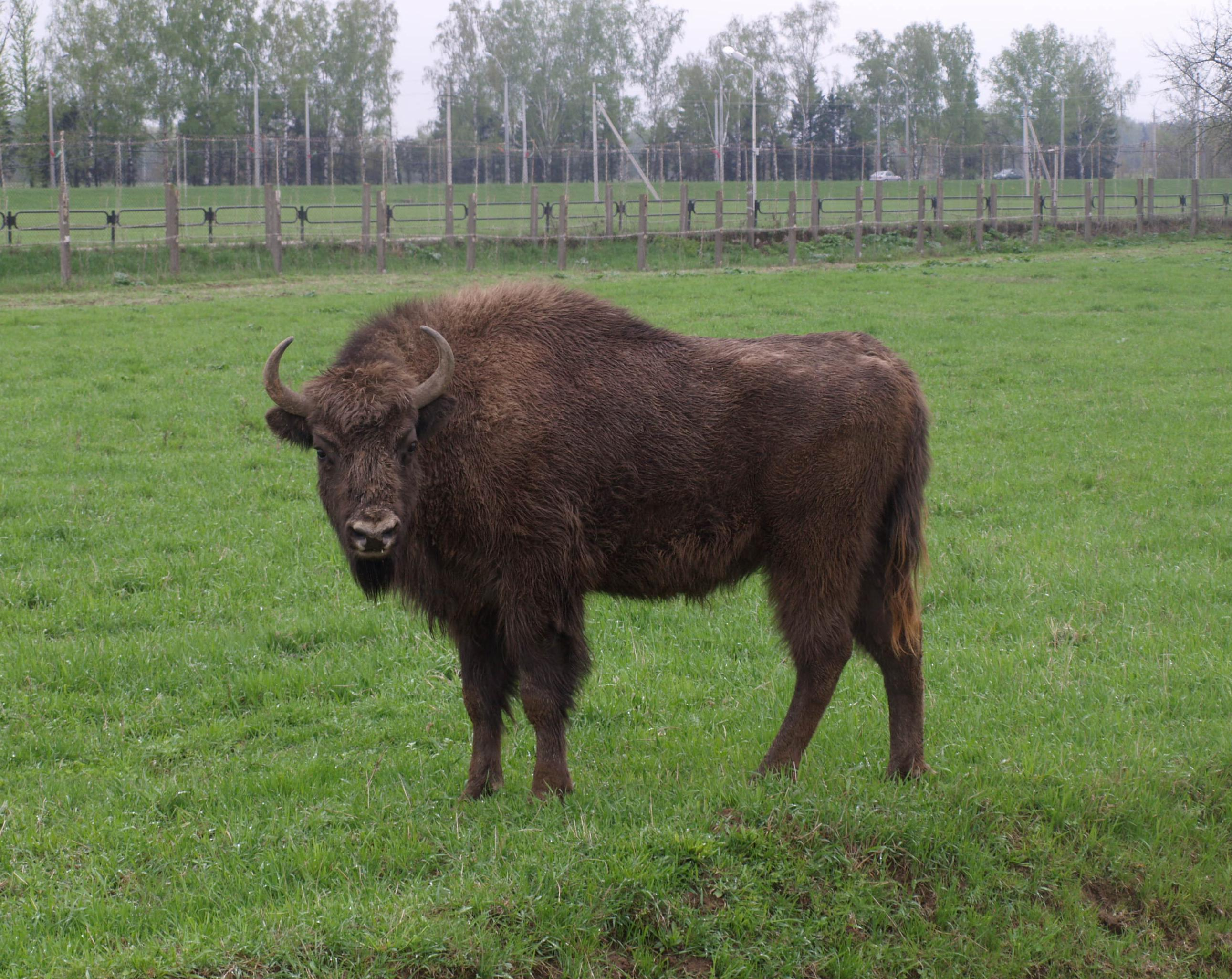 Mogilev Zoo Bison